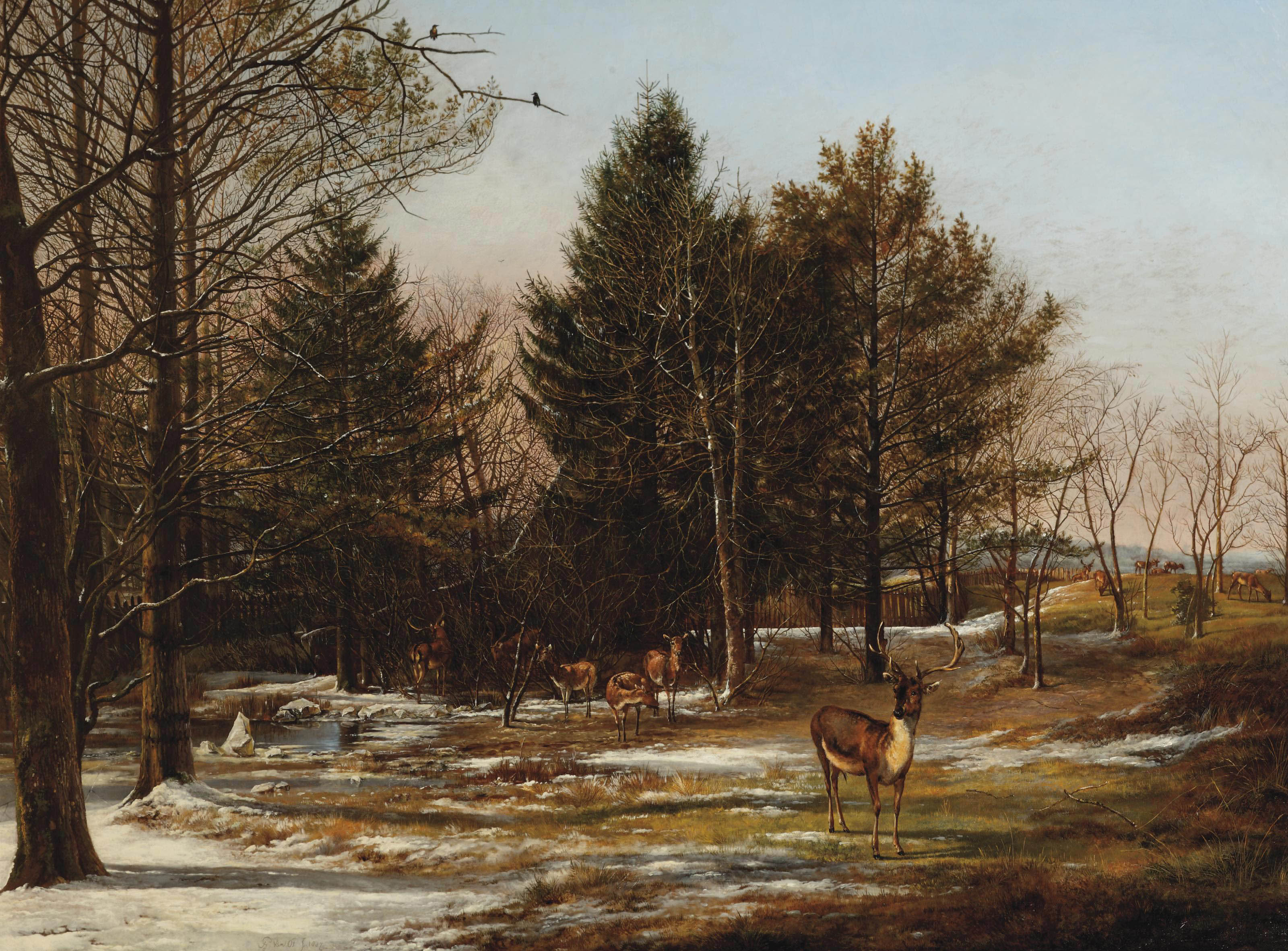 A wooded winter landscape with deers